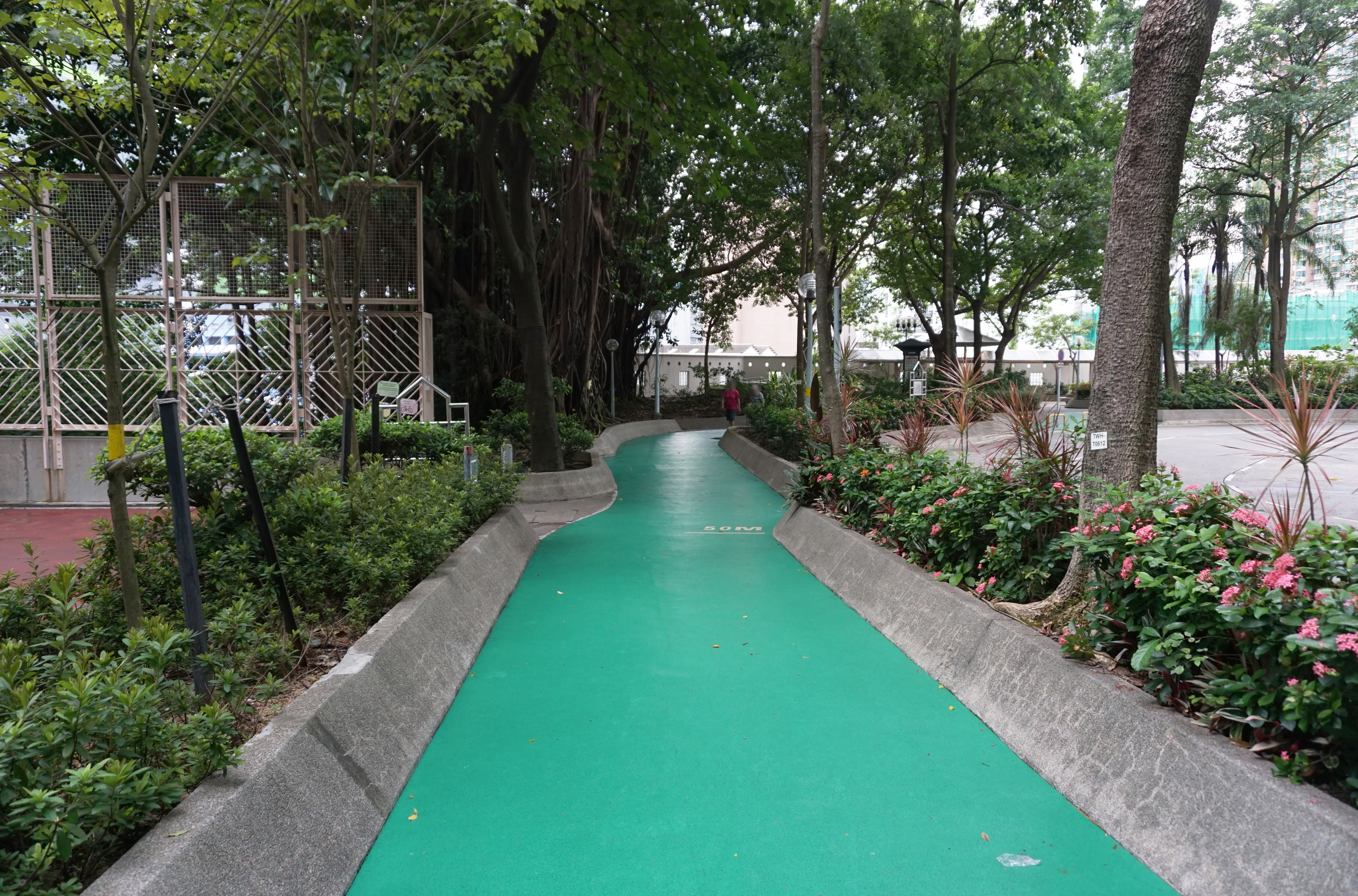 Tai Wo Hau Estate in Tai Wo Hau, Hong Kong.